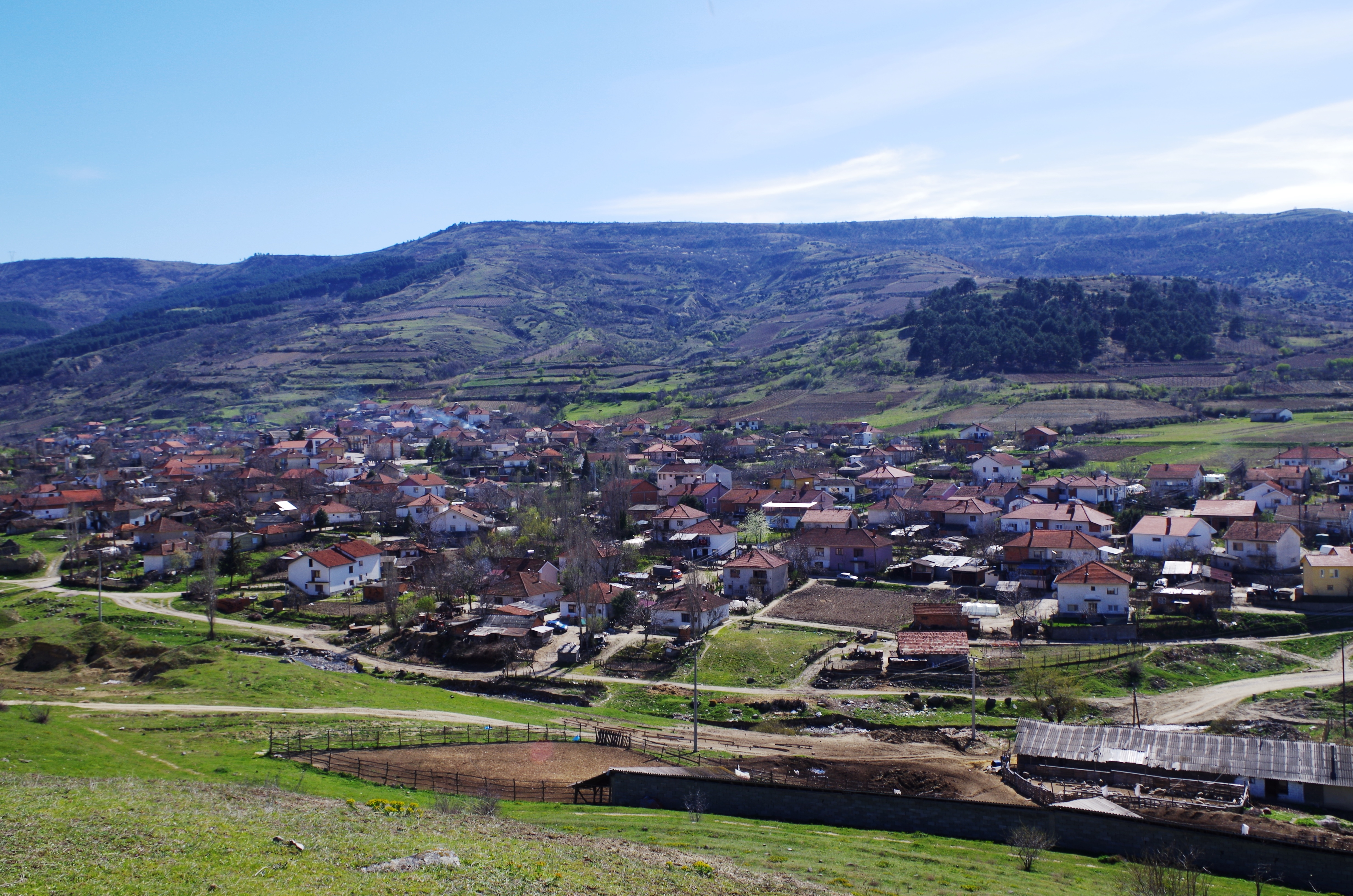 Panorama phofo of the village Dolni Disan